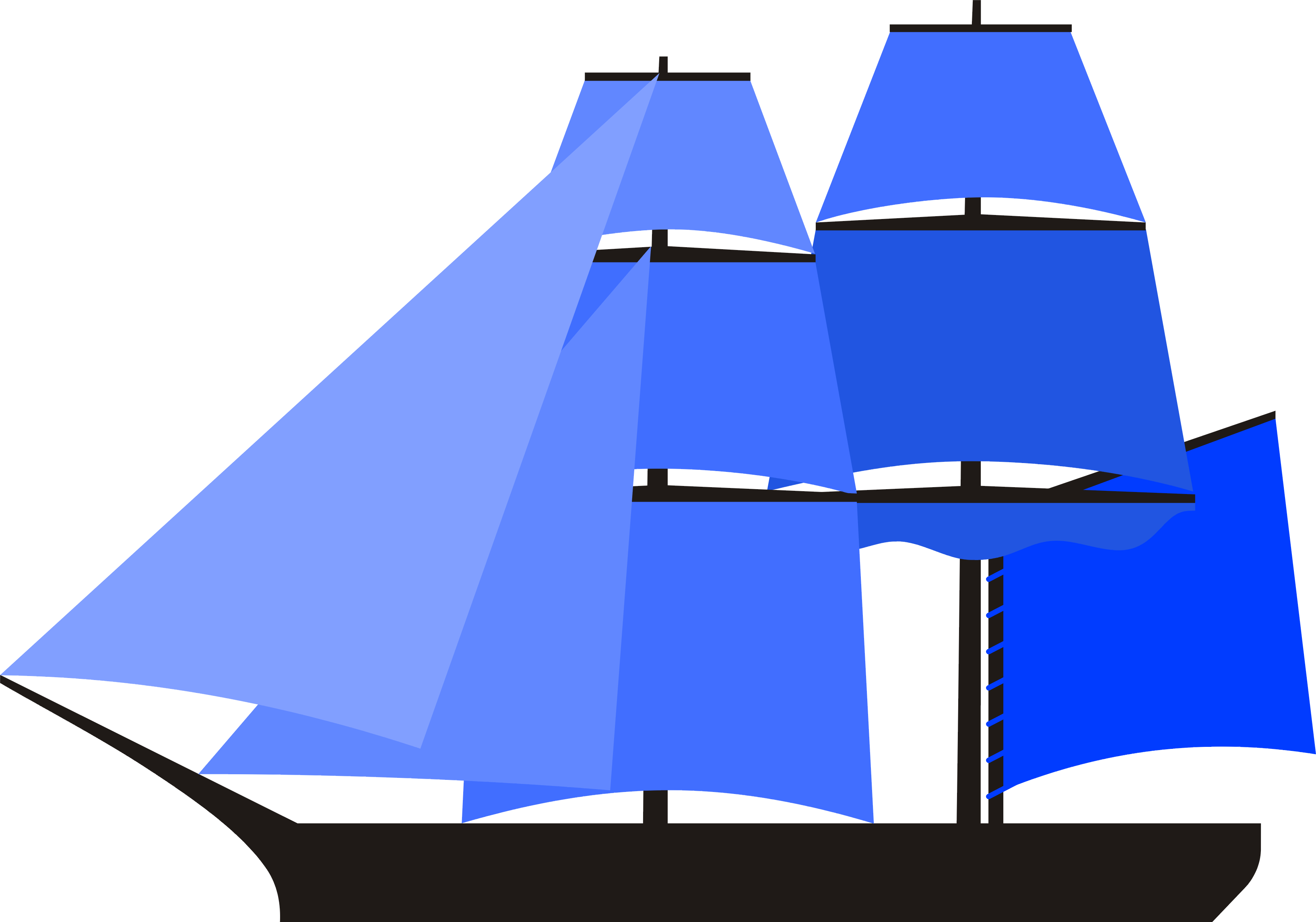 The Snow is a vessel with two masts, fore and main, both of which are fully square-rigged. stepped immediately behind the mainmast is the so-called snow-mast on which a trysail with a boom is carried.